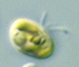 Pavlova sp.